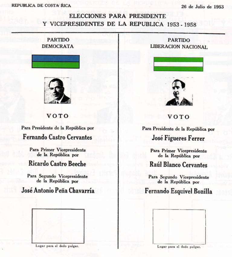 Papeleta presidencial de 1953